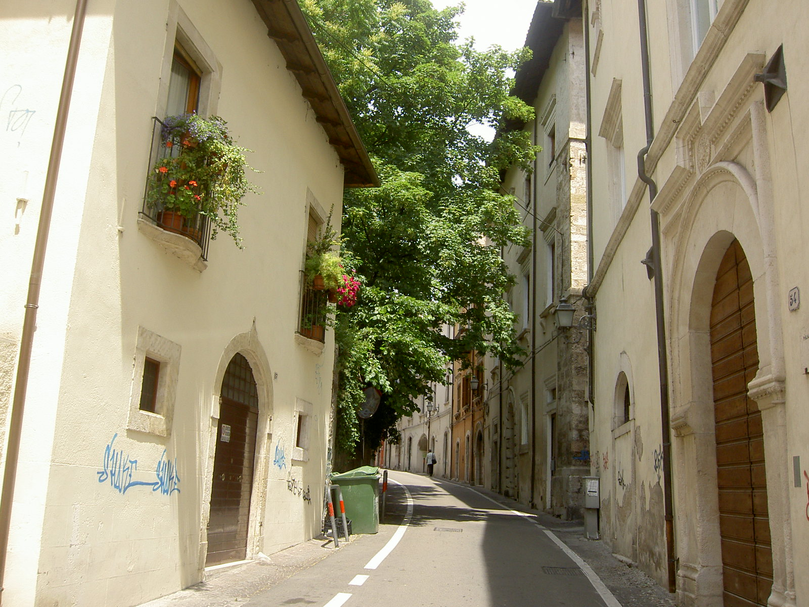 A view of Via Fortebraccio in L'Aquila.